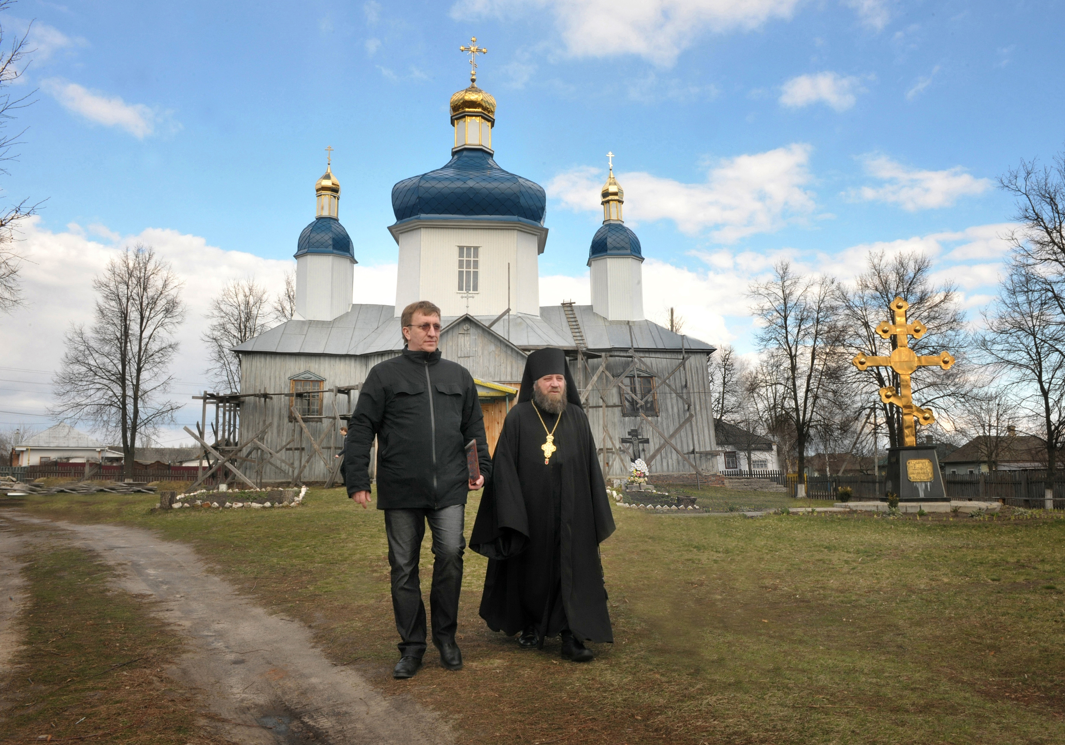 Vladyslav Bukhariev,Sumy Oblast.2017.